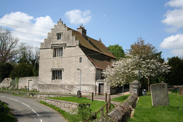 Great Ponton Manor House, Lincolnshire. Built for Anthony Ellys in about 1519. It has stepped gables, and insied are traces of 16th century wall paintings.